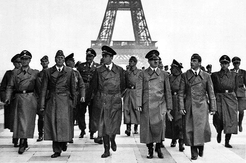 Adolf Hitler and his entourage visiting the Eiffel Tower in Paris on June 23, 1940, following the occupation of France by the Nazis.